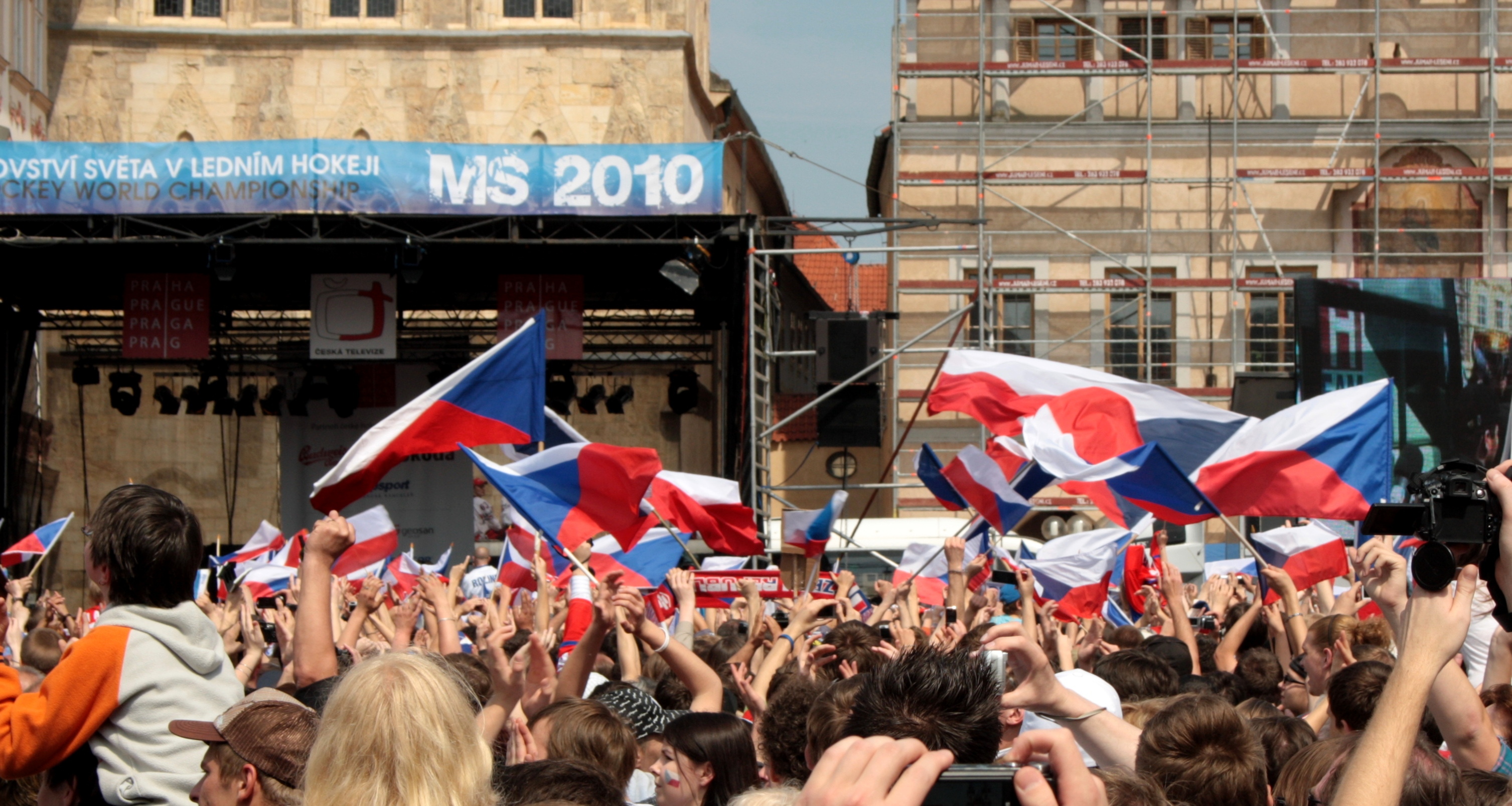 Arrival of czech hockey team, which won gold medal championship 2010 in Germany to Staroměstské náměstí square in Prague, CZ